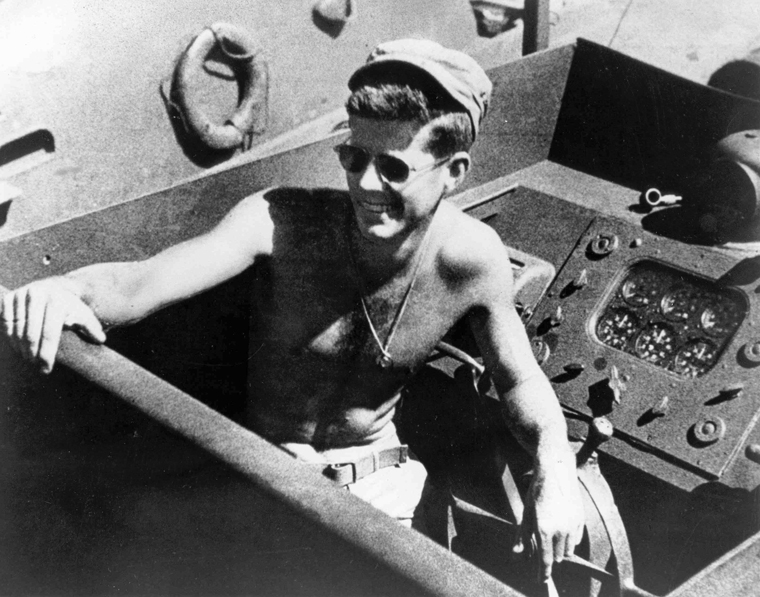 PC 101 Lt. (jg) John F. Kennedy aboard the PT-109, Tulagi, Solomon Islands, South Pacific, 1943.